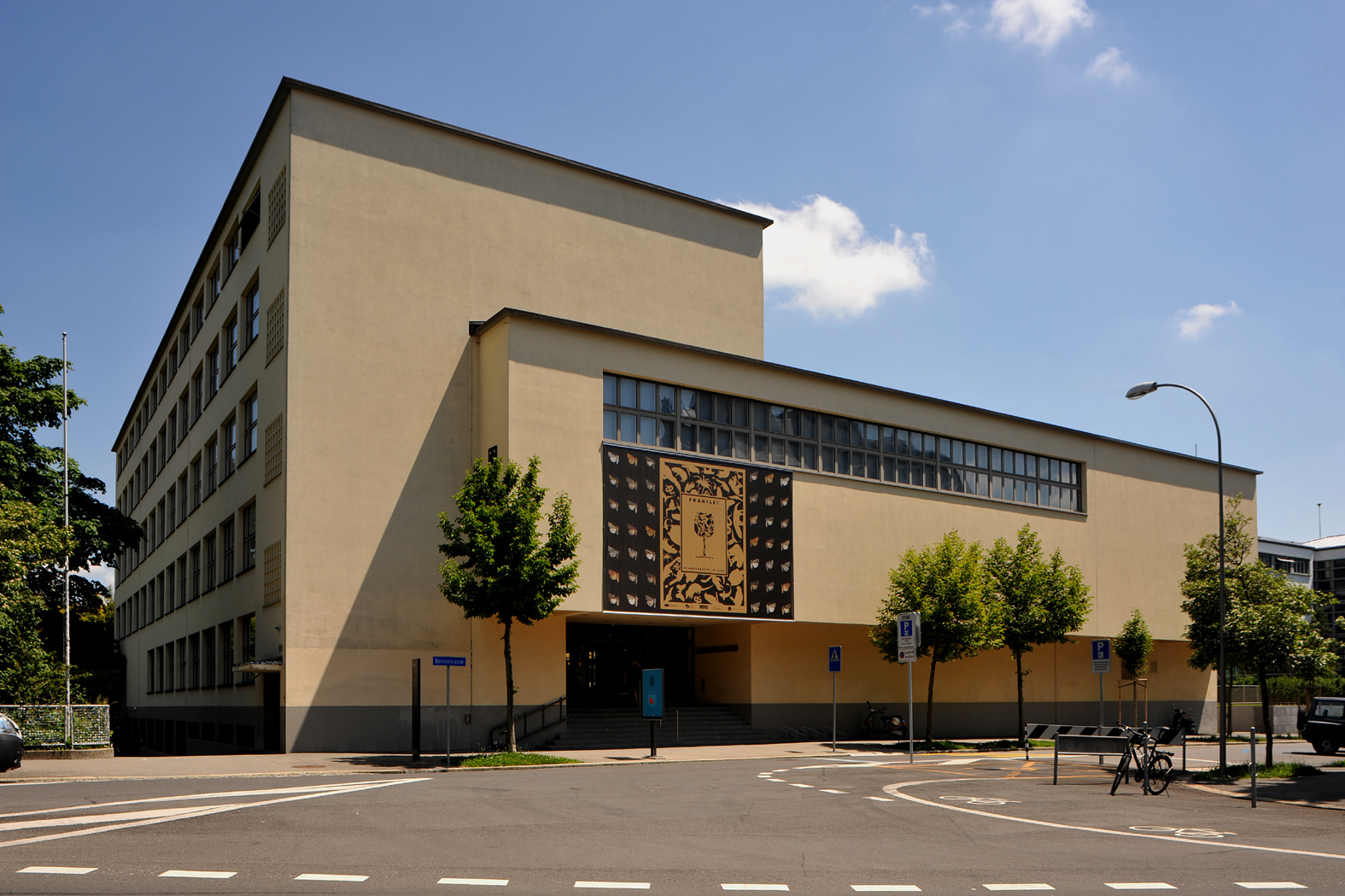 Natural History Museum; Berne, Switzerland